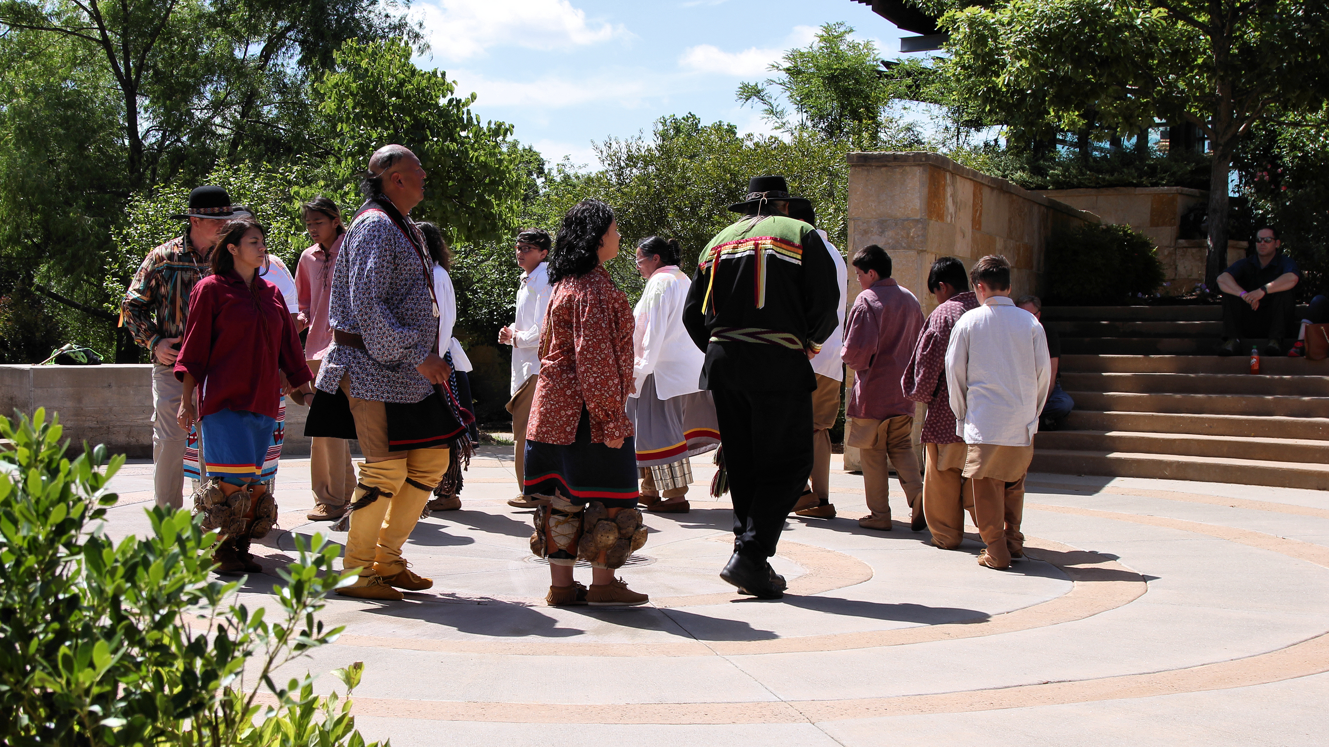 Chickasaw tribal dancers demonstrate a traditional "stomp" dance at the Chickasaw Cultural Center in Sulphur, Oklahoma, United States. The women wear leggings made of turtle shells or other hollow containers filled with river rocks that rattle to the beat when they dance.